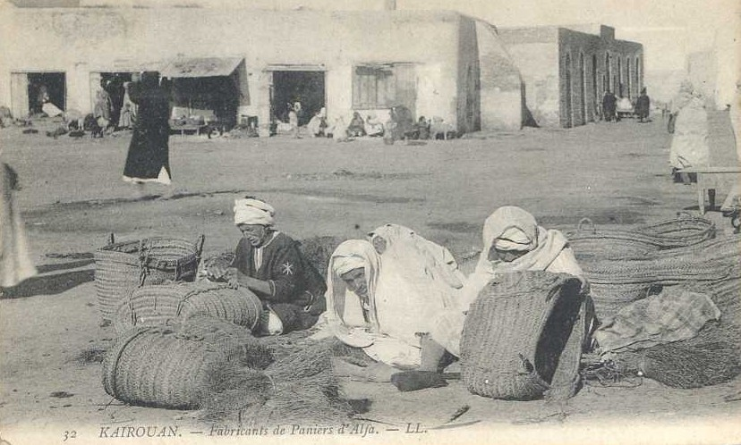 Tunisia Kairouan Fabricants of Esparto baskets. Old picture